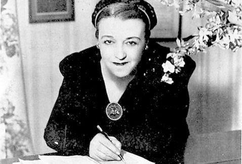 Publicity photo of Mexican composer María Grever taken by Paramount Pictures or 20th-Century Fox Studios for whom she worked as a film composer from 1920 until her death in 1951.